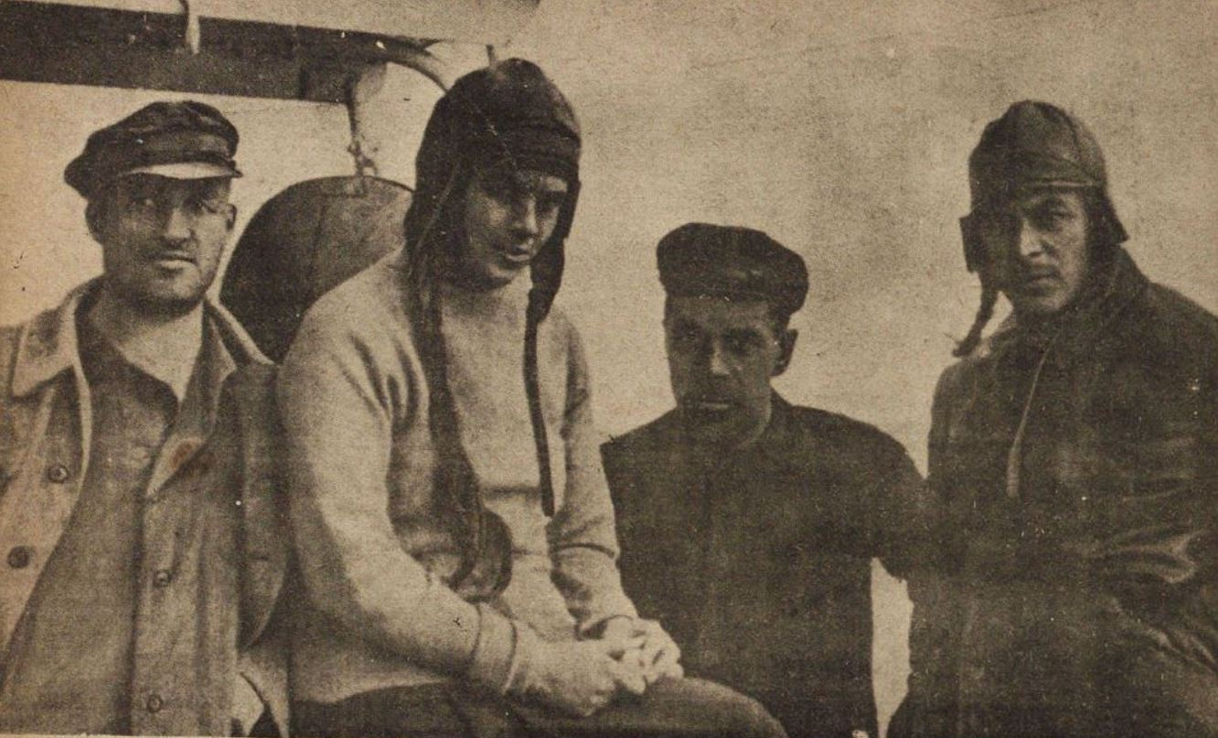 Nina Demme and the hunter, meteorologist, and her husband, Gabriel Ignatievich Ioylev, preparing to leave for wintering on Severnaya Zemlya in 1932